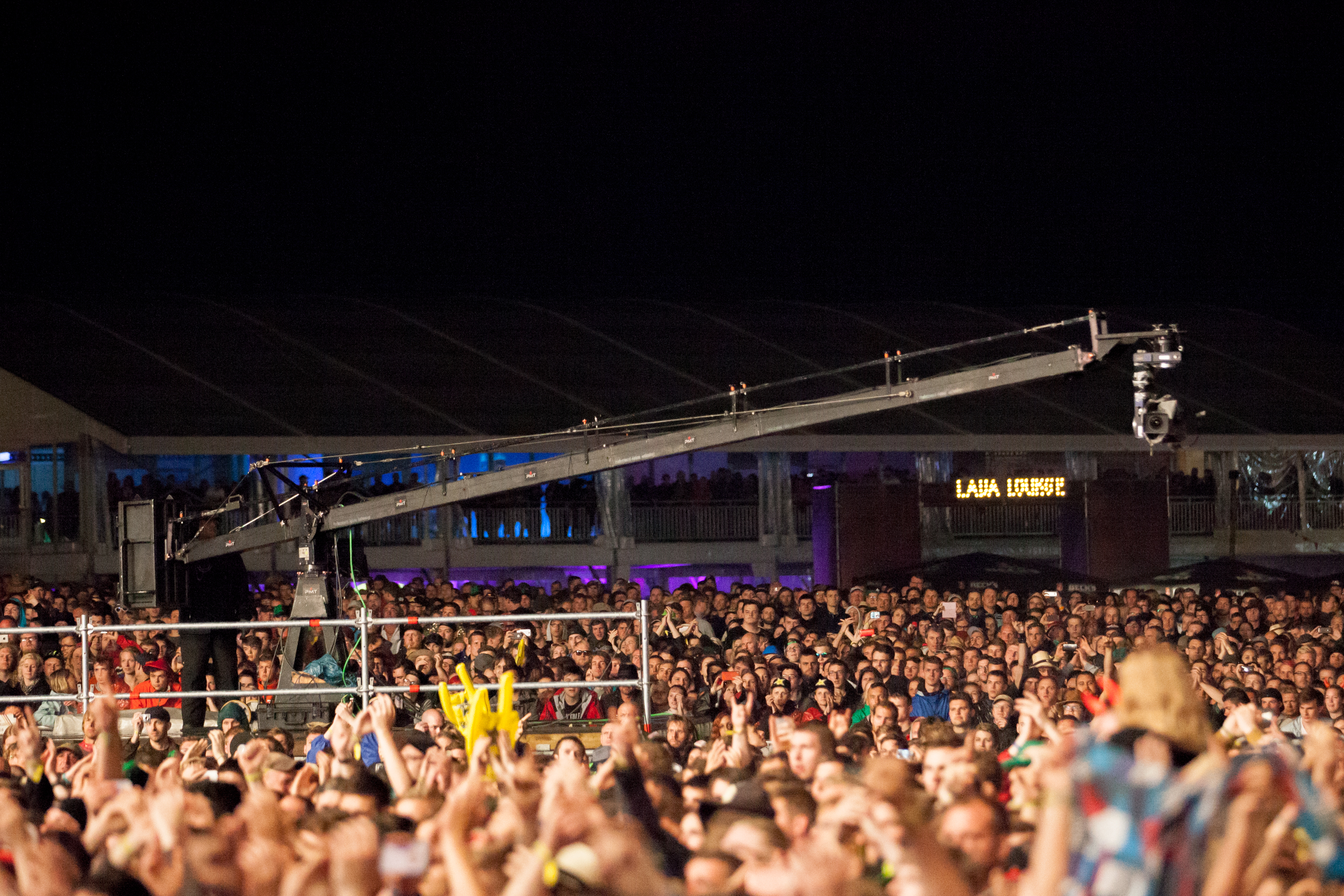 Camera jib and crowd in front of Volbeat at Rock Am Ring 2016 at Flugplatz Mendig in Mendig (Germany)